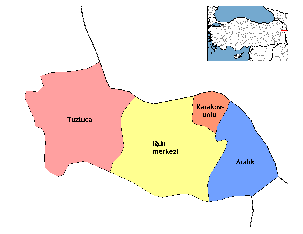 Map of the districts of Iğdır province in Turkey. Created by Rarelibra 20:57, 1 December 2006 (UTC) for public domain use, using MapInfo Professional v8.5 and various mapping resources. Edited by One Homo Sapiens Corrected text where İ,Ş,ı,ğ,or ş occurs in name. Source: [statoids-com]. Increased font size and enhanced color differences among adjacent districts.